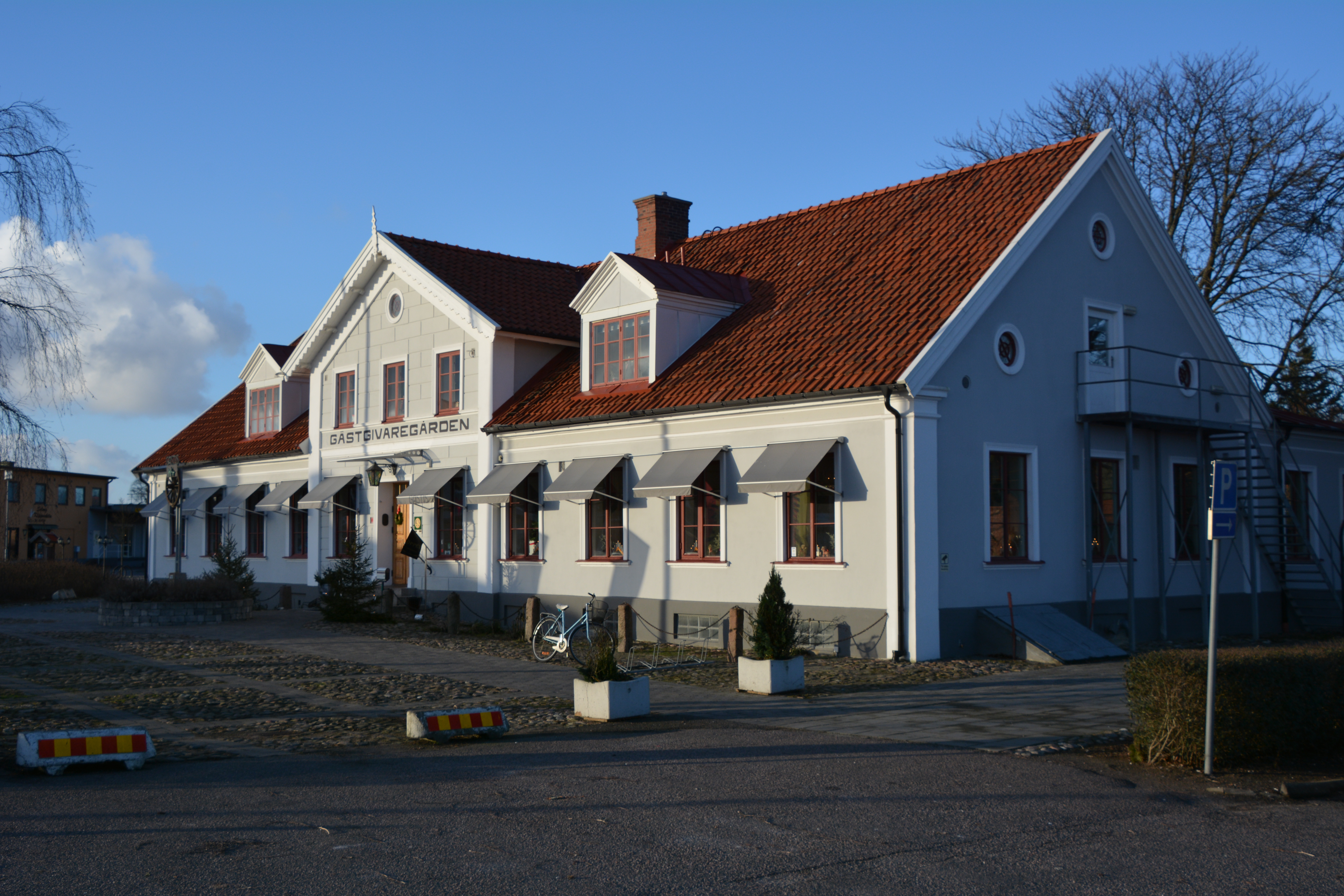 Staffanstorps gästgiveri